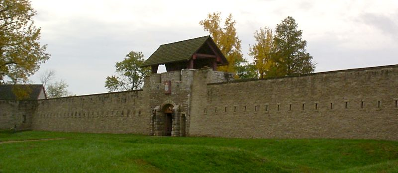 The reconstructed gatehouse and front curtain (wall) at Fort de Chartres in Illinois.